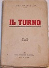 copertina di testo edizioni Madella di oltre 70 anni